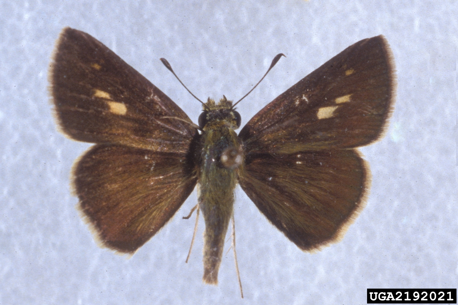 Wallengrenia otho. Oktibbeha County, Doyman Lake, Mississippi, United States.